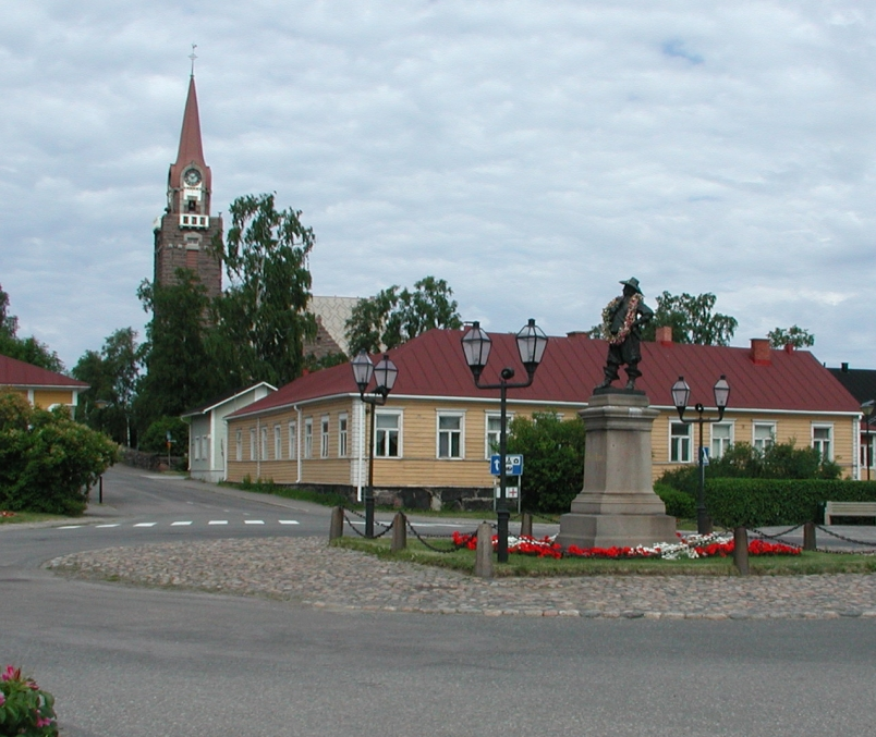 Raahe church and statue of Per Brahe (Pietari Brahe) in Raahe, Finland. The church is designed by architect Josef Stenbäck and the statue was made by sculptor Walter Runeberg.